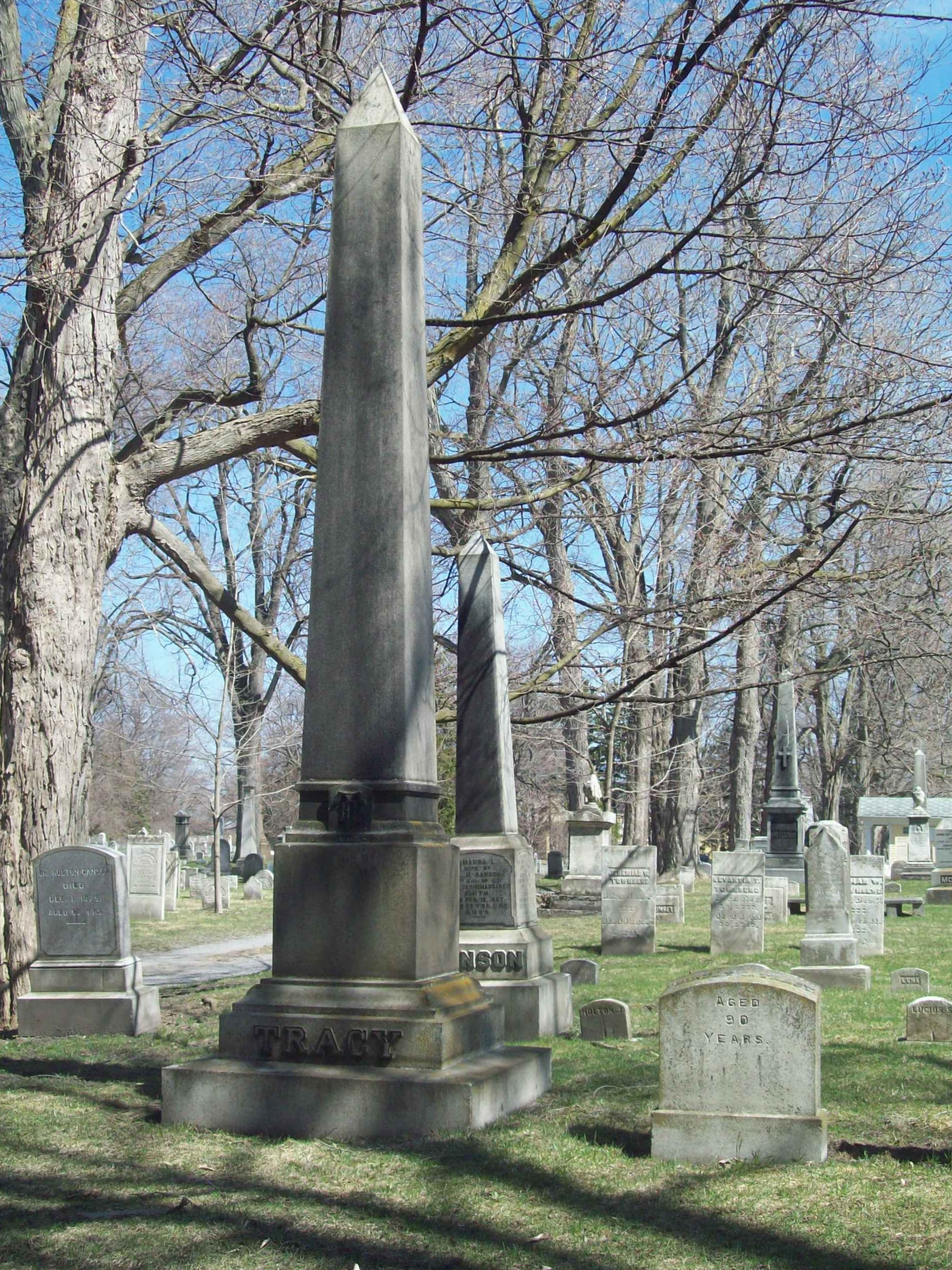 Phineas L. Tracy Obelisk, Batavia Cemetery, Batavia NY, April 2011